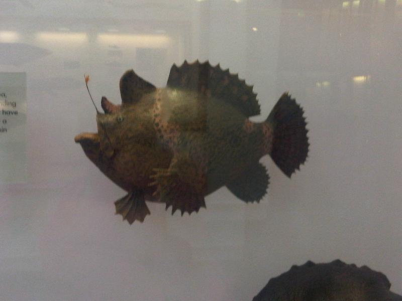 Commersons Frogfish (Antennarius commerson) at the Natural History Museum in London, England.